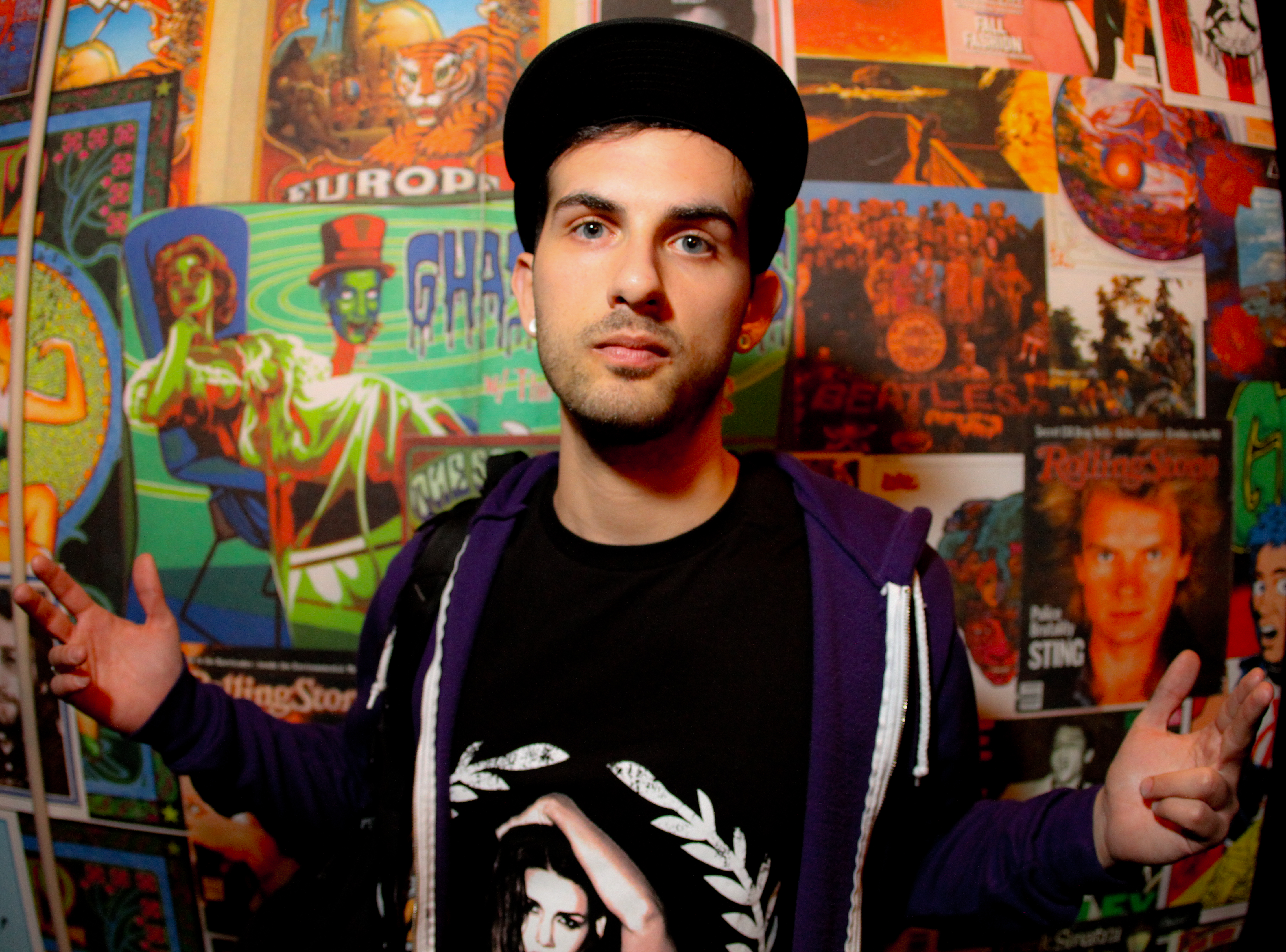 Borgore on November 20, 2010.